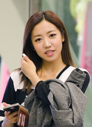 Kim Namjoo at "Full House" musical red carpet, 29 May 2014